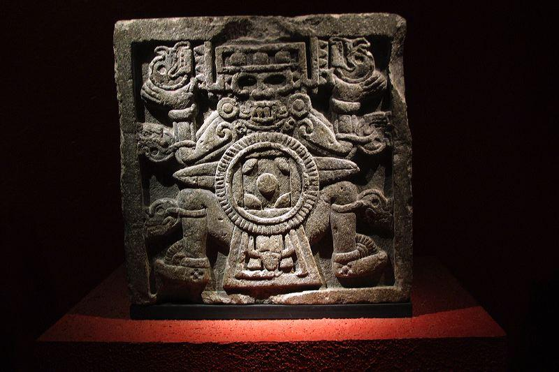 Tlaltecuhtli, Aztec god of earth